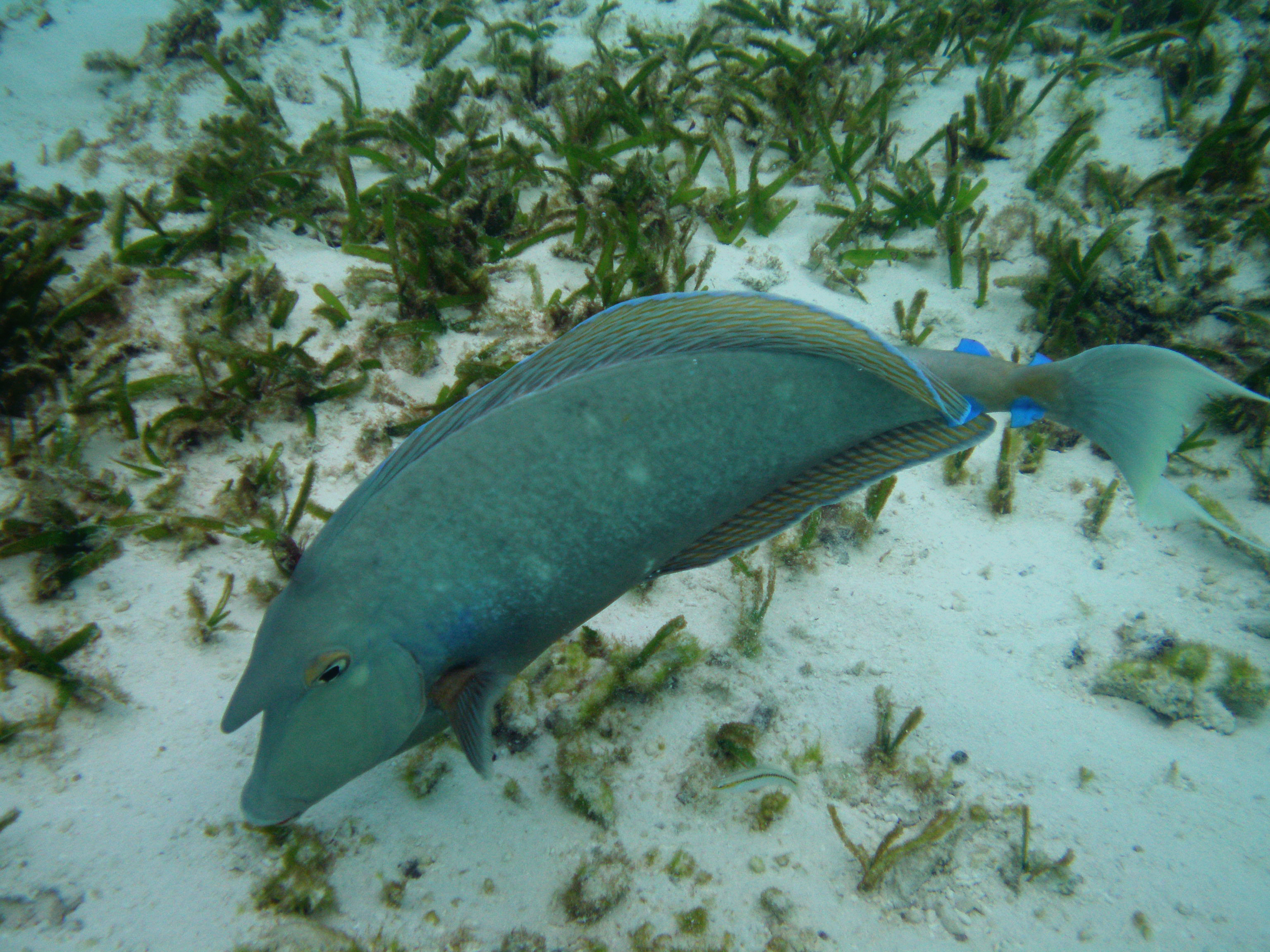 Maldives_Bluespine_unicornfish_(Naso_unicornis)